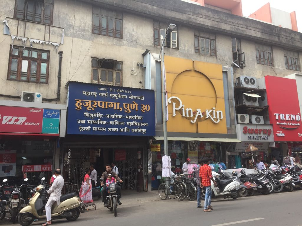 Entrance of Hujurpaga Girls school Pune on the busy shopping area of Lakshmi Road.